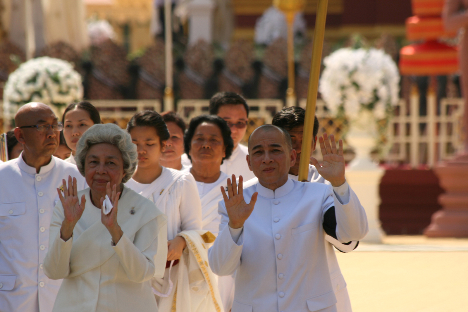 King Norodom Sihamoni of Cambodia and Queen Norodom Monineath, his mother, the last wife of the late King Norodom Sihanouk